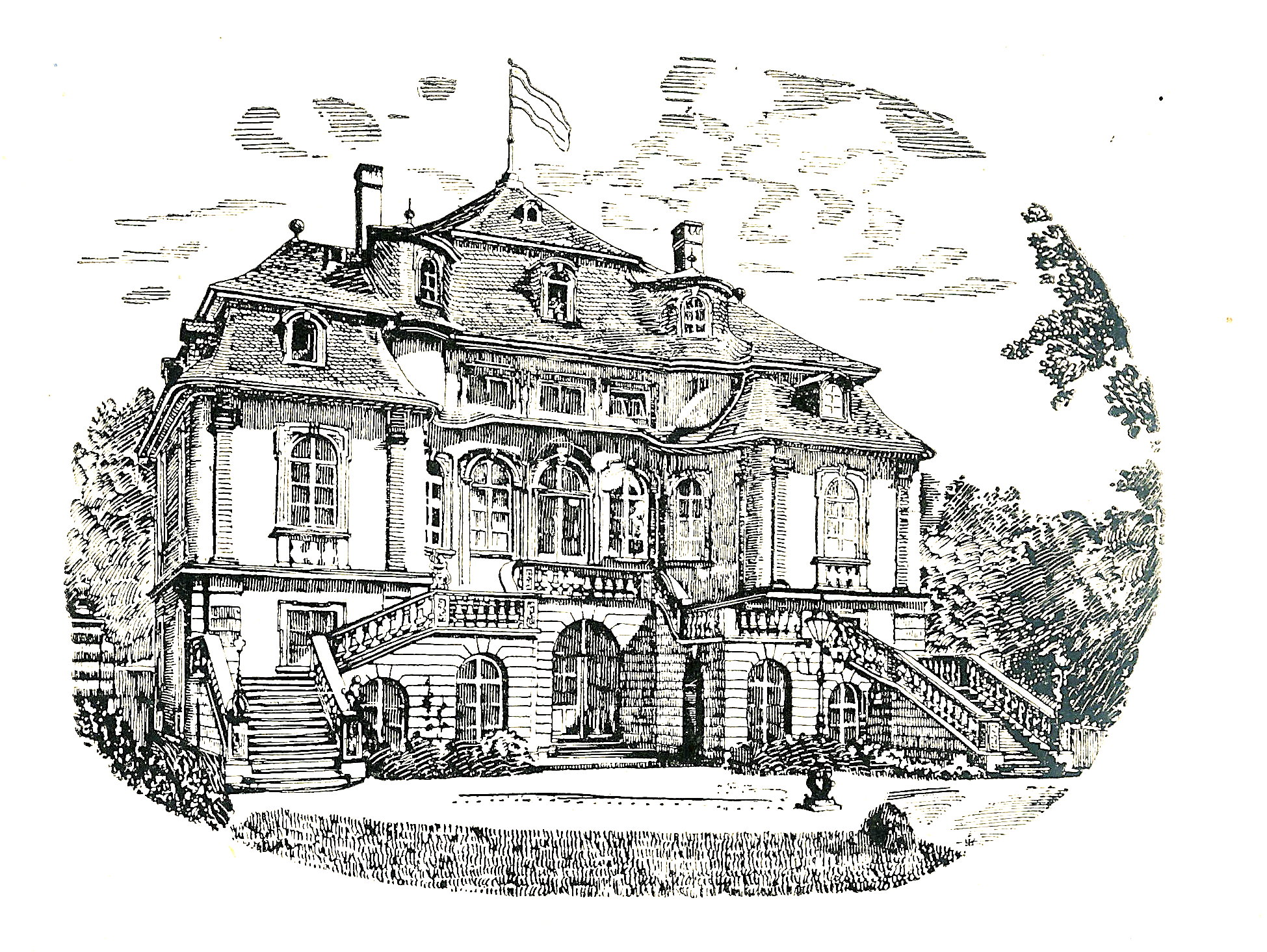 Huttenschlösschen Manor in Würzburg/Germany, now used by student fraternity Corps Rhenania Würzburg